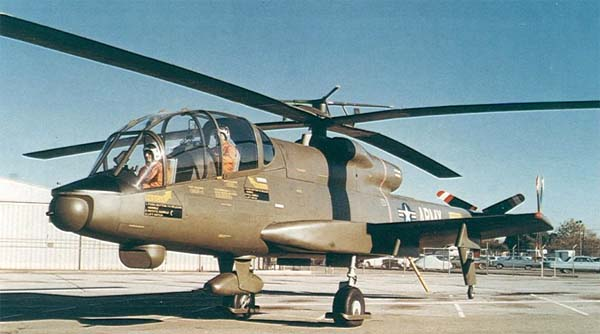 AH-56A Cheyenne